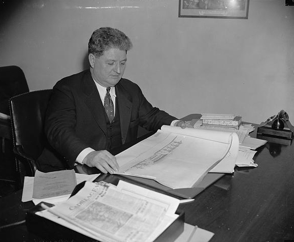 Putting fly in ointment of "McNutt-for -president" boom. Washington, D.C., April 21. If he continues the pace he is setting to date, Rep. Albert J. Engel, Republican of Michigan, appears certain to throw the "monkey wrench" into the gears of the "McNutt-for-President" boom which got underway during the past winter. Rep. Engel is pictured studying plans he dug up for the two palaces, "Summer" and "Regular" which as high commissioner of the Philippines, McNutt wants built as Commissioner's residences in islands. The proposed palaces are to cost $500,000 and $250,000 respectively. Rep. Engel takes great pride in pointing out that plans for the palaces include 18 lavatories and bathrooms with a seating capacity of 43, 4/21/38